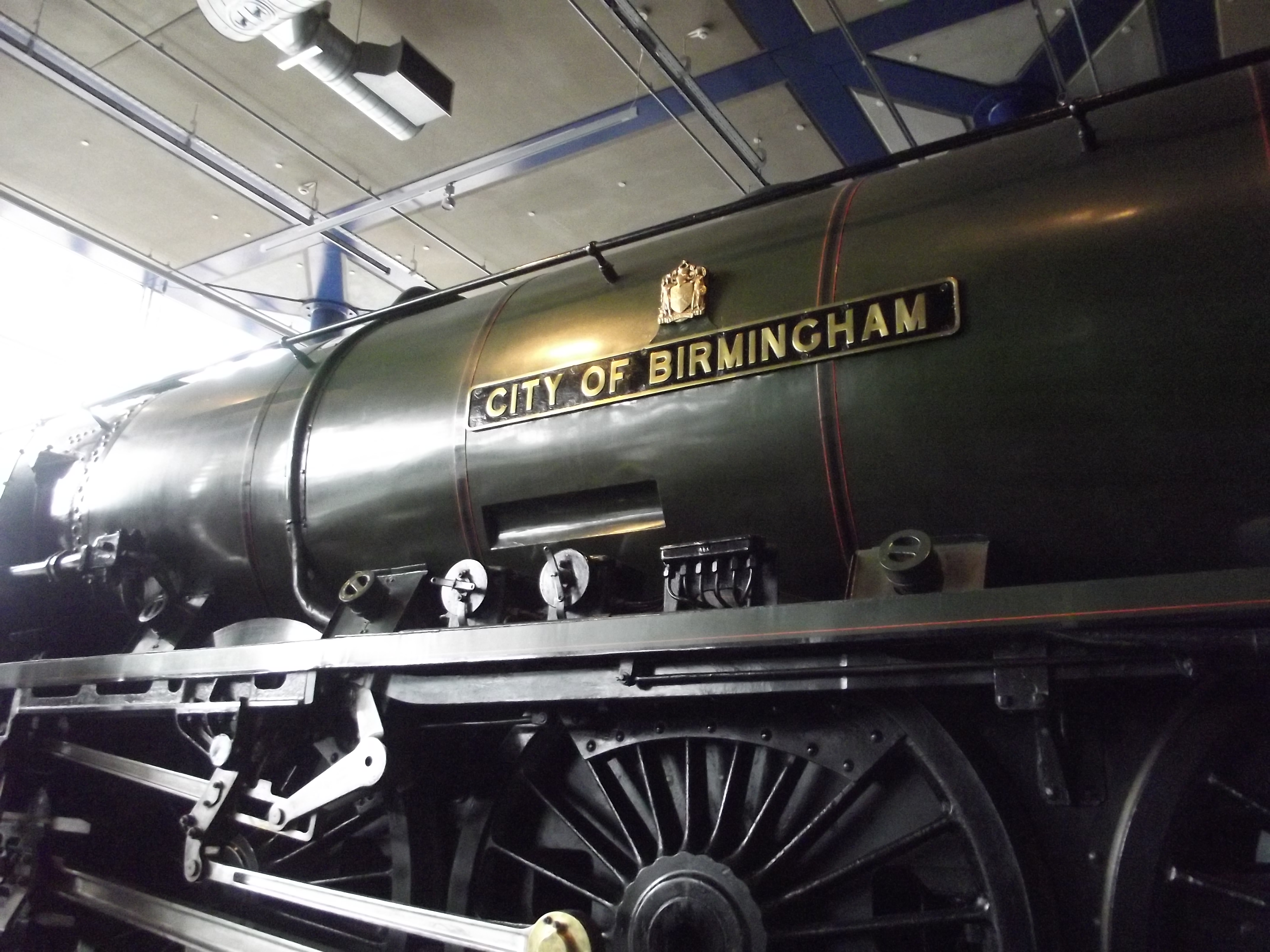 A collection of old vehicles on Level 0 of Thinktank Birmingham Science Museum. The area called "Move It" These were most likely in display at one time or another in the old Science Museum on Newhall Street (until 1997). When not on display, some of them had been stored at the Museum Collections Centre on Dollman Street in Nechells. This is the most famous part of Thinktank - the City of Birmingham - LMS locomotive - no 46235 . I remember seeing it many times at the old Birmingham Museum of Science & Industry on Newhall Street (when I was younger). It used to move a little bit, but the way it is installed here it can't move. You can walk around it, then up a ramp (with old railway signs on one side). Then in the middle, you can look at where the railway men would drive the engine!